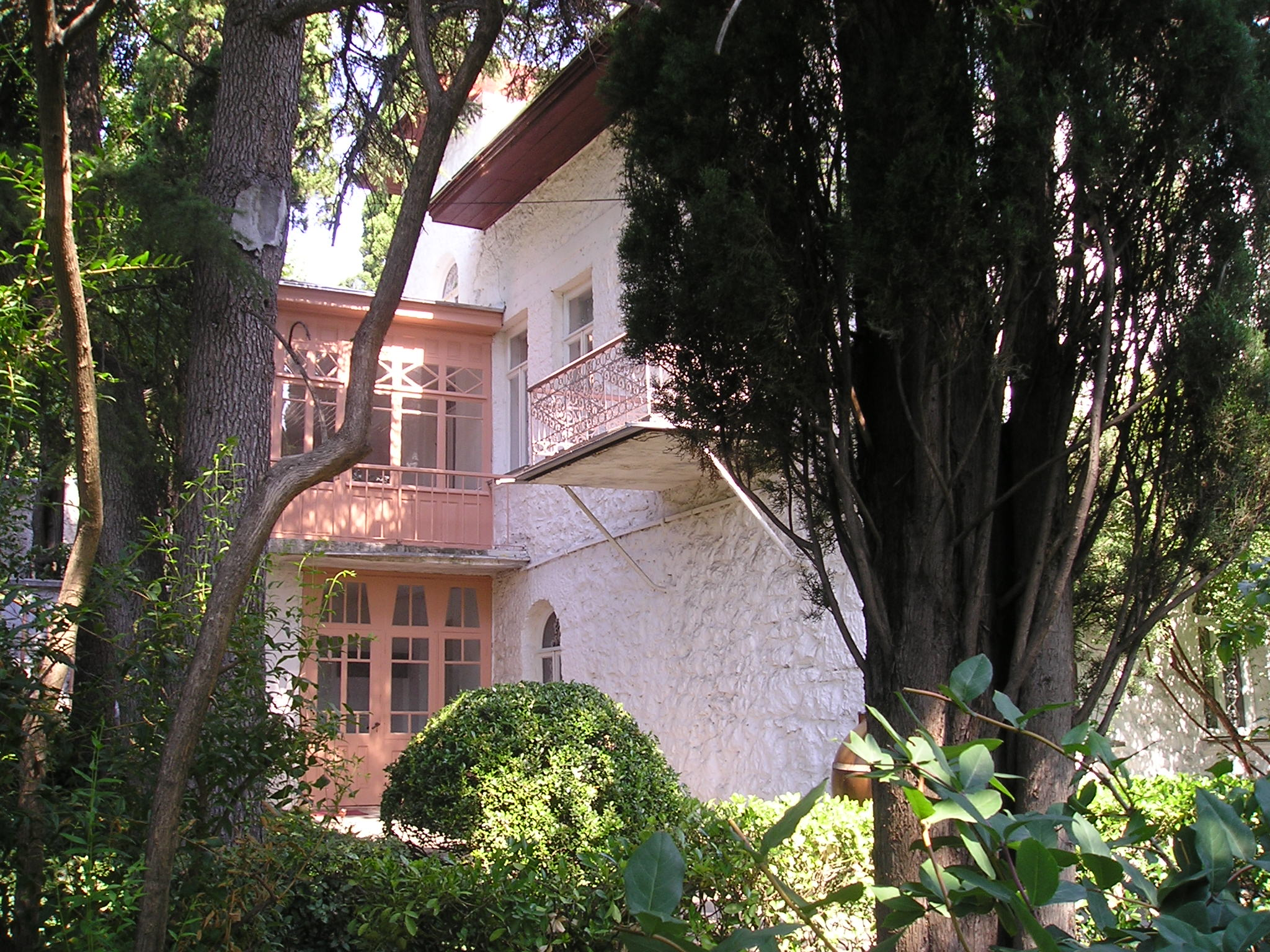 The A. Cekov-Museum, Jalta